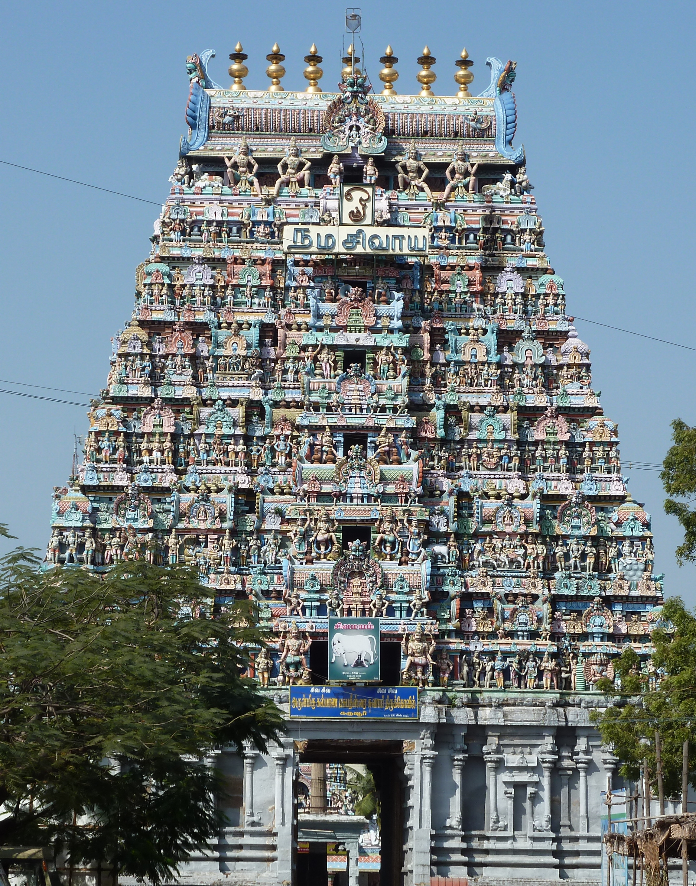 It is the entrance of the Pasupatheeswarar temple in Karur, India